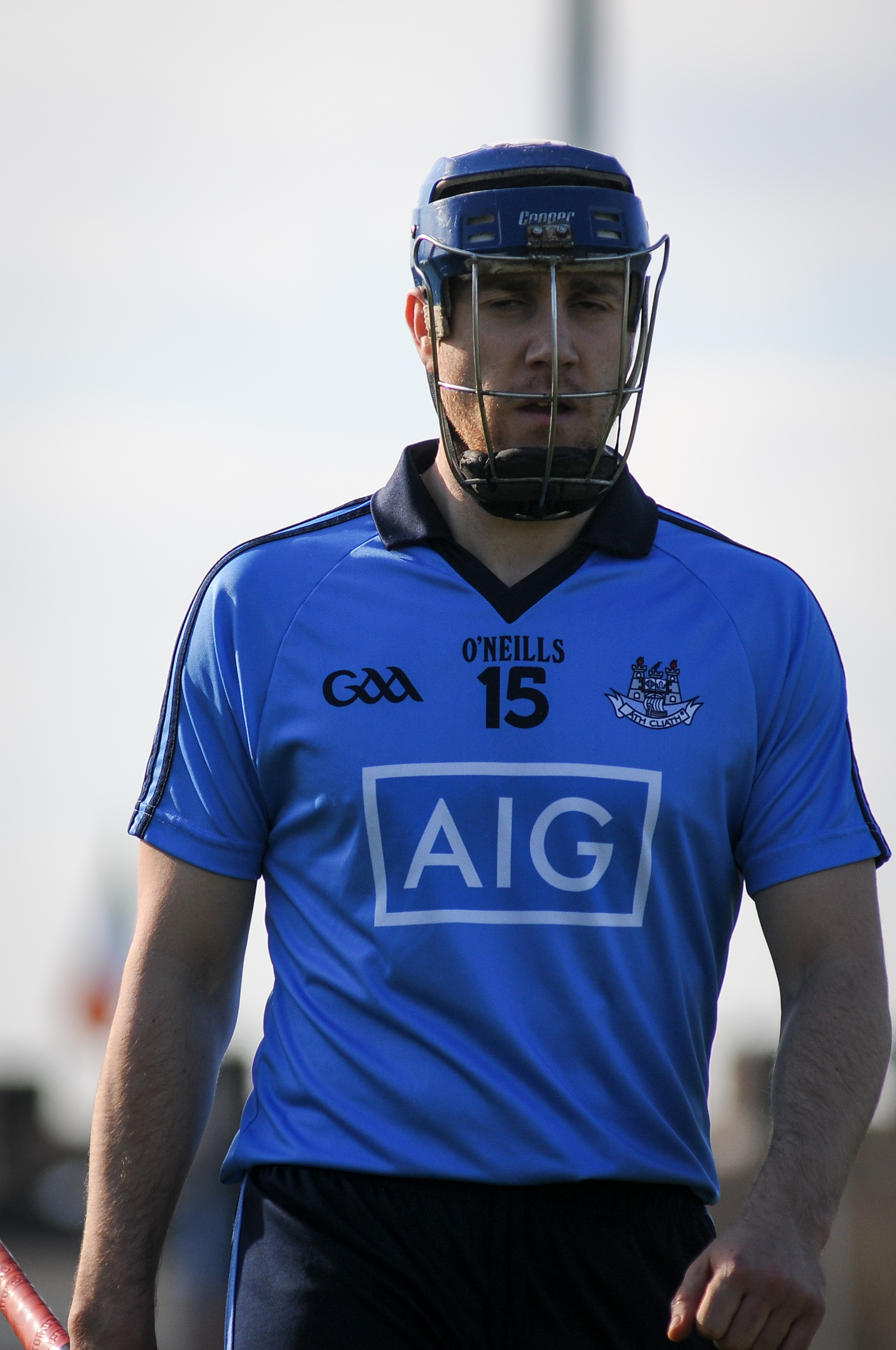 Paul Ryan in action for Dublin in the 2015 National Hurling League